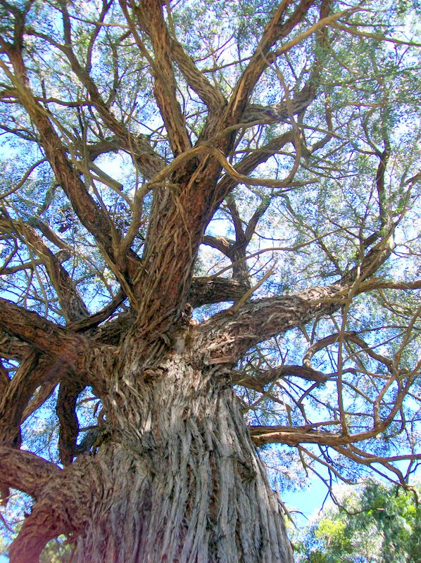 Eucalyptus agglomerata, at Watagan Forest Road, Central Coast, NSW, Australia